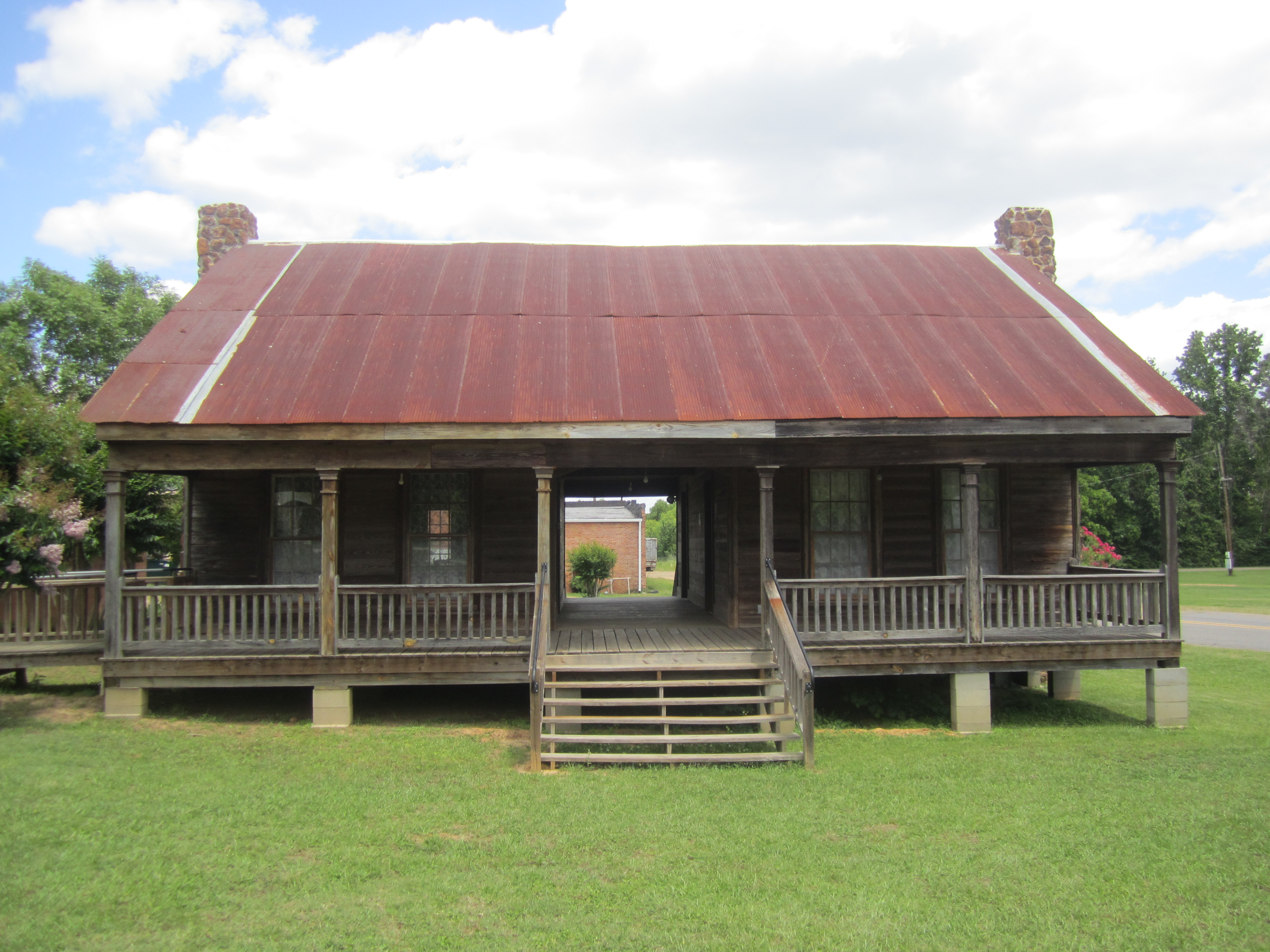 I took photo of dogtrot house in downtown Dubach off U.S. Hwy. 167, with Canon camera.